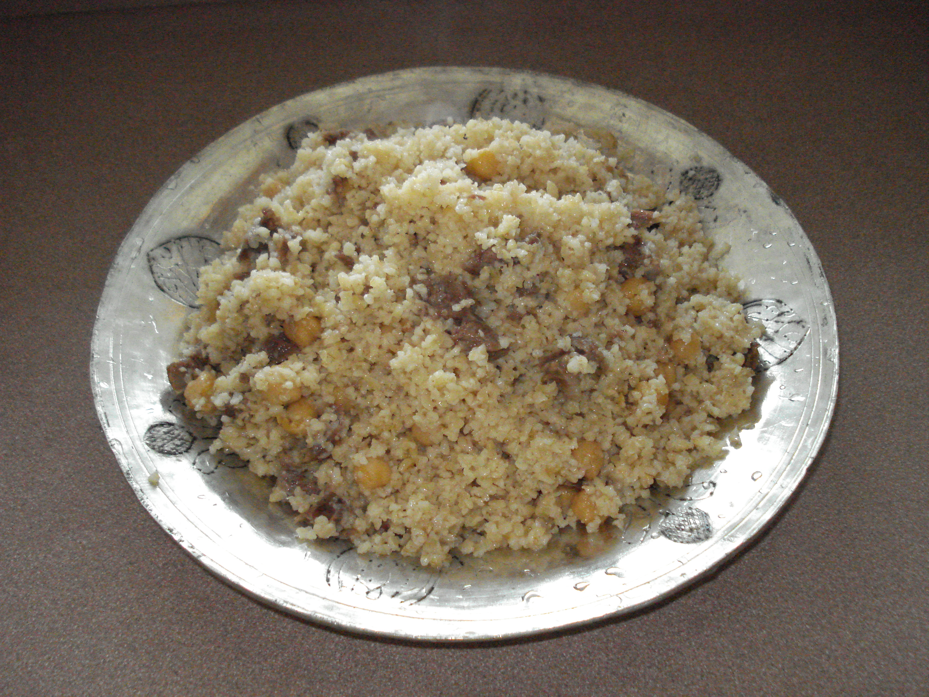 Bulgur pilavı, a kind of pilav from Turkish cuisine with boiled and pounded wheat.